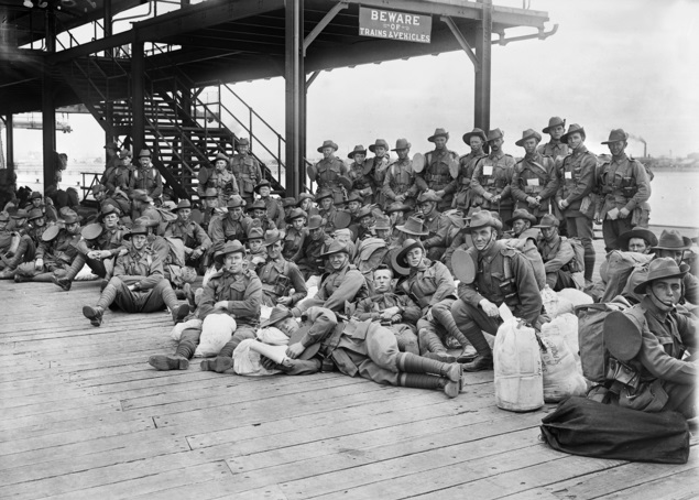 The 10th Reinforcements of the Australian 5th Pioneers at Port Melbourne, Victoria prior to boarding HMAT Aeneas (A60), bound for the Western Front, October 1917.